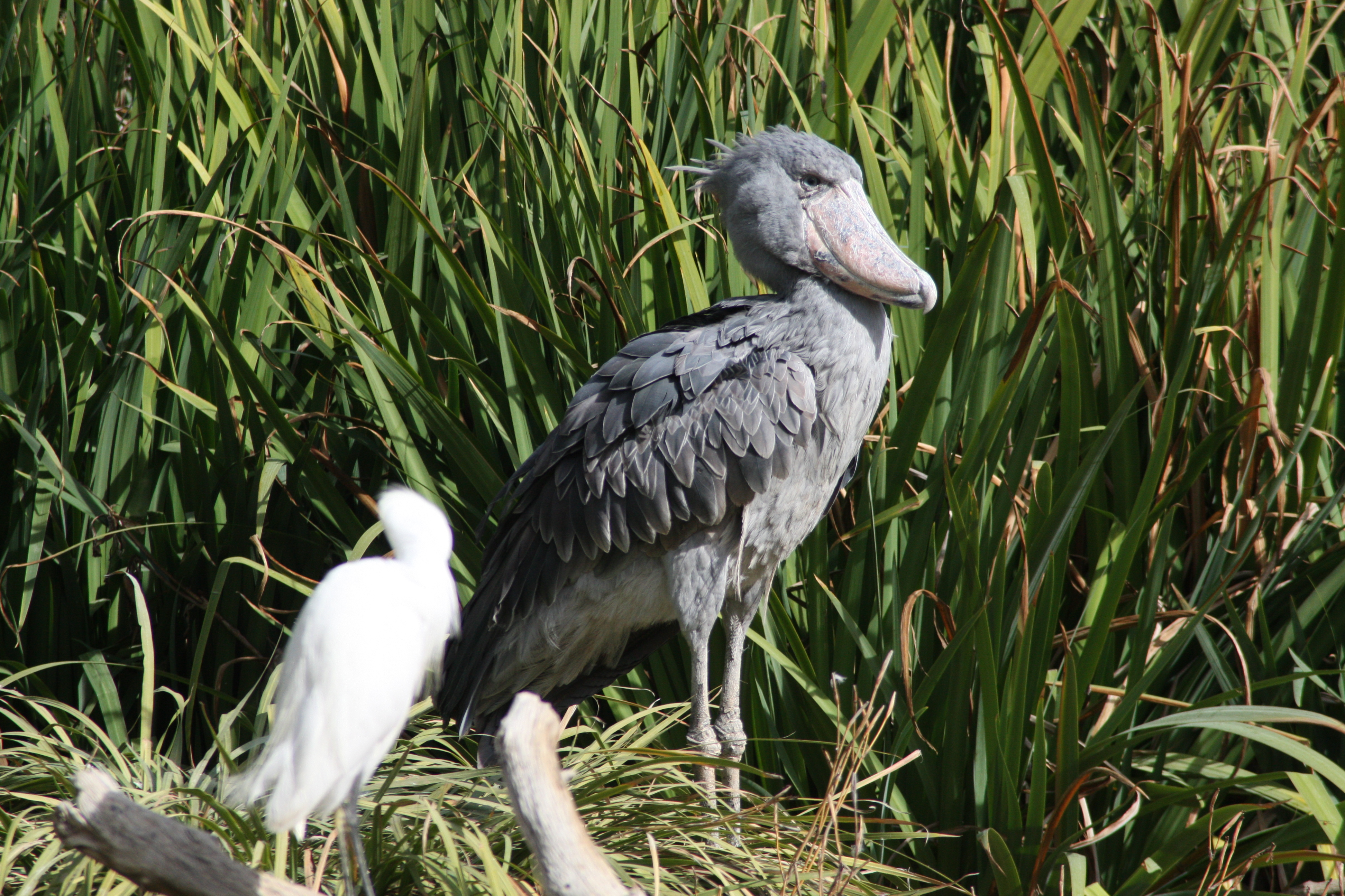 Balaeniceps rex Shoebill Heron